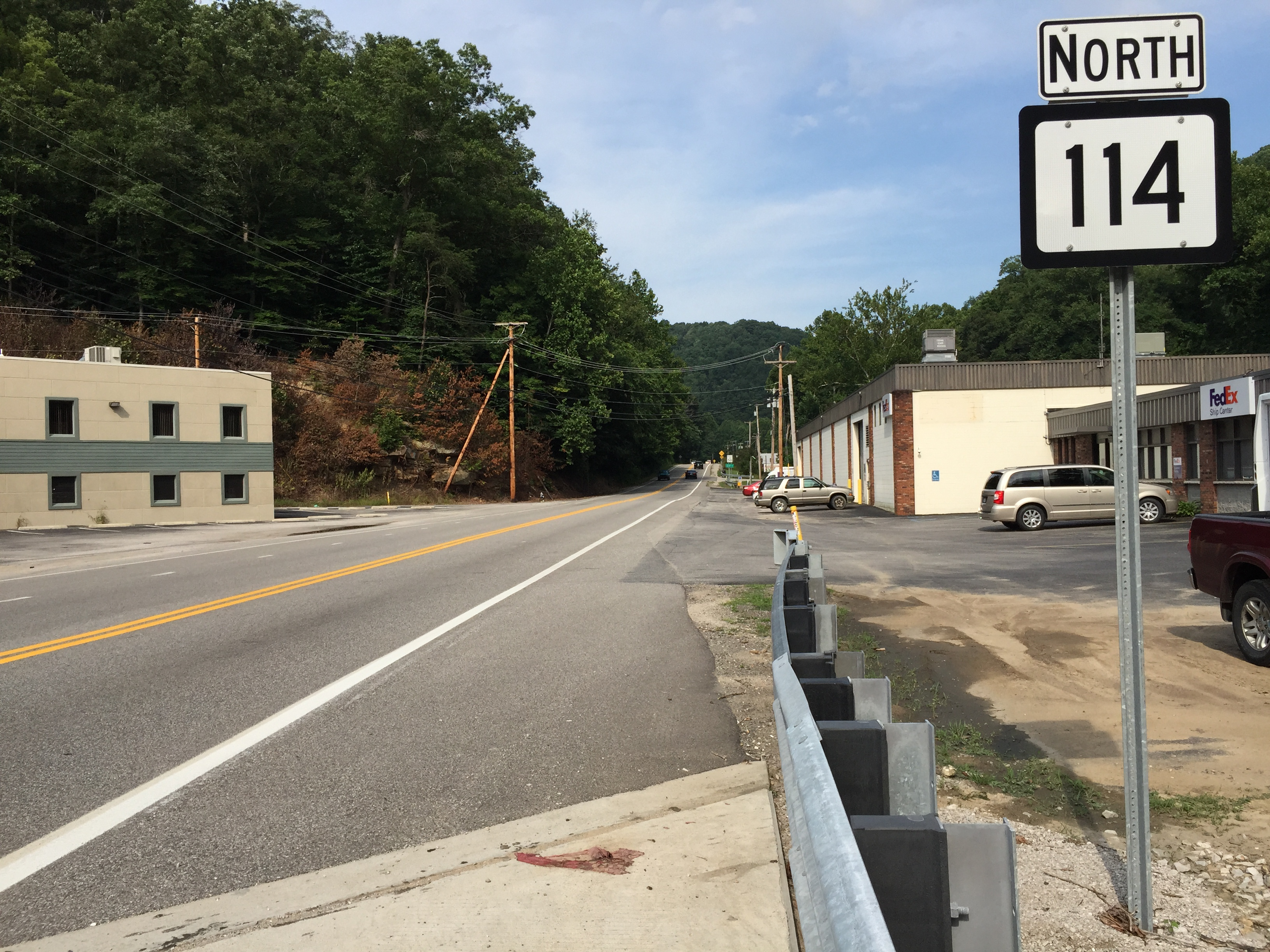 View north along West Virginia State Route 114 (Greenbrier Street) just east of Airport Road in Etowah, Kanawha County, West Virginia